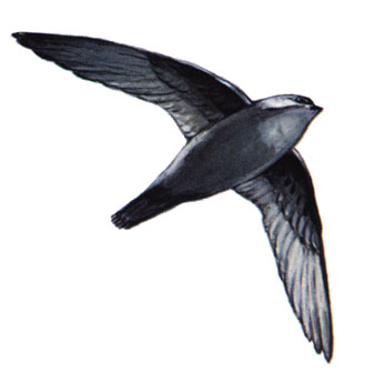 Chimney Swift, Chaetura pelagica, Offset reproduction of painting. Modified from orginal--background removed.